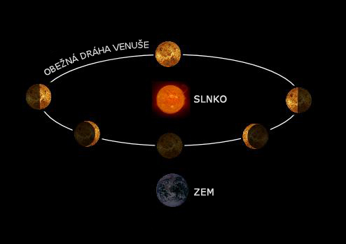 slovak version of the picture